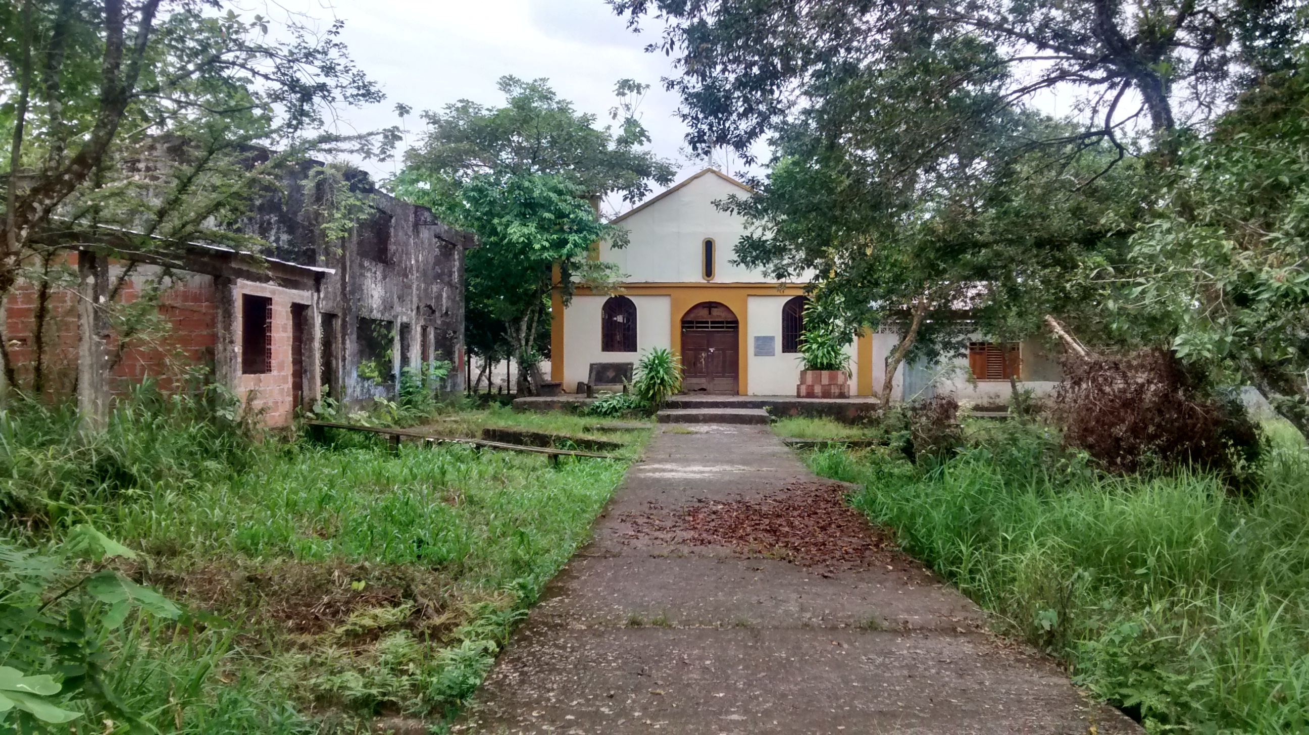 Bellavista Viejo in 2020